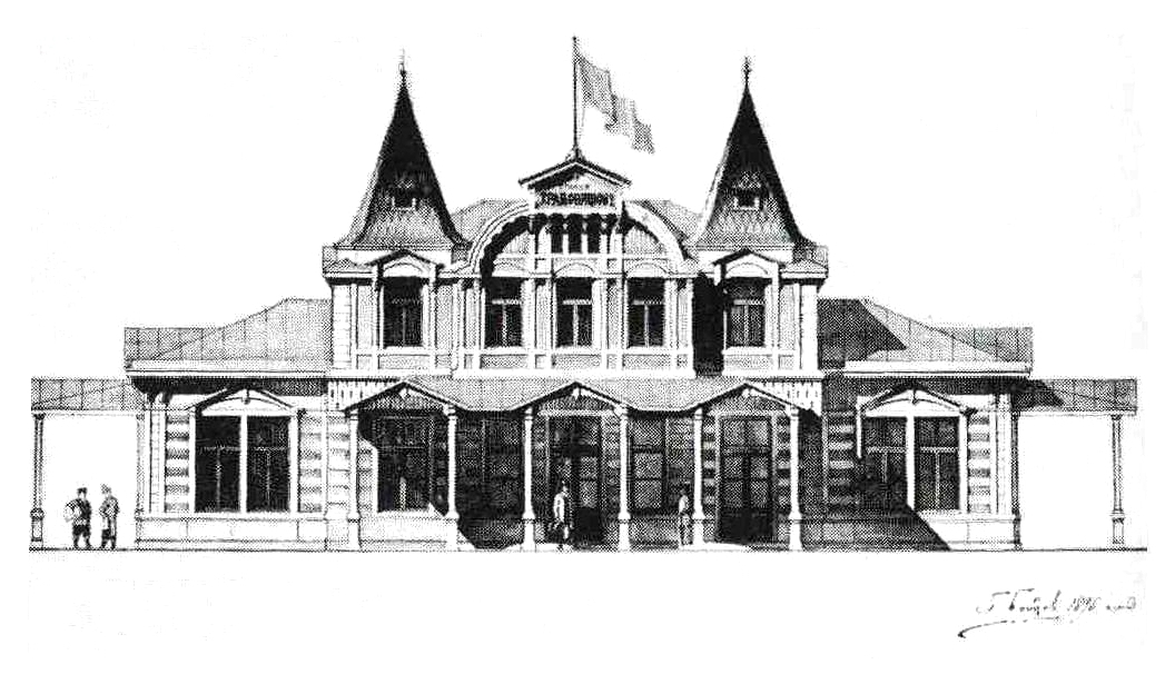 Muromtsevo Railway Station Project. The Estate of Kharpovitsky. Architect P. S. Boytsov. 1896. Sudogda County, Yaroslavl Province, Russia